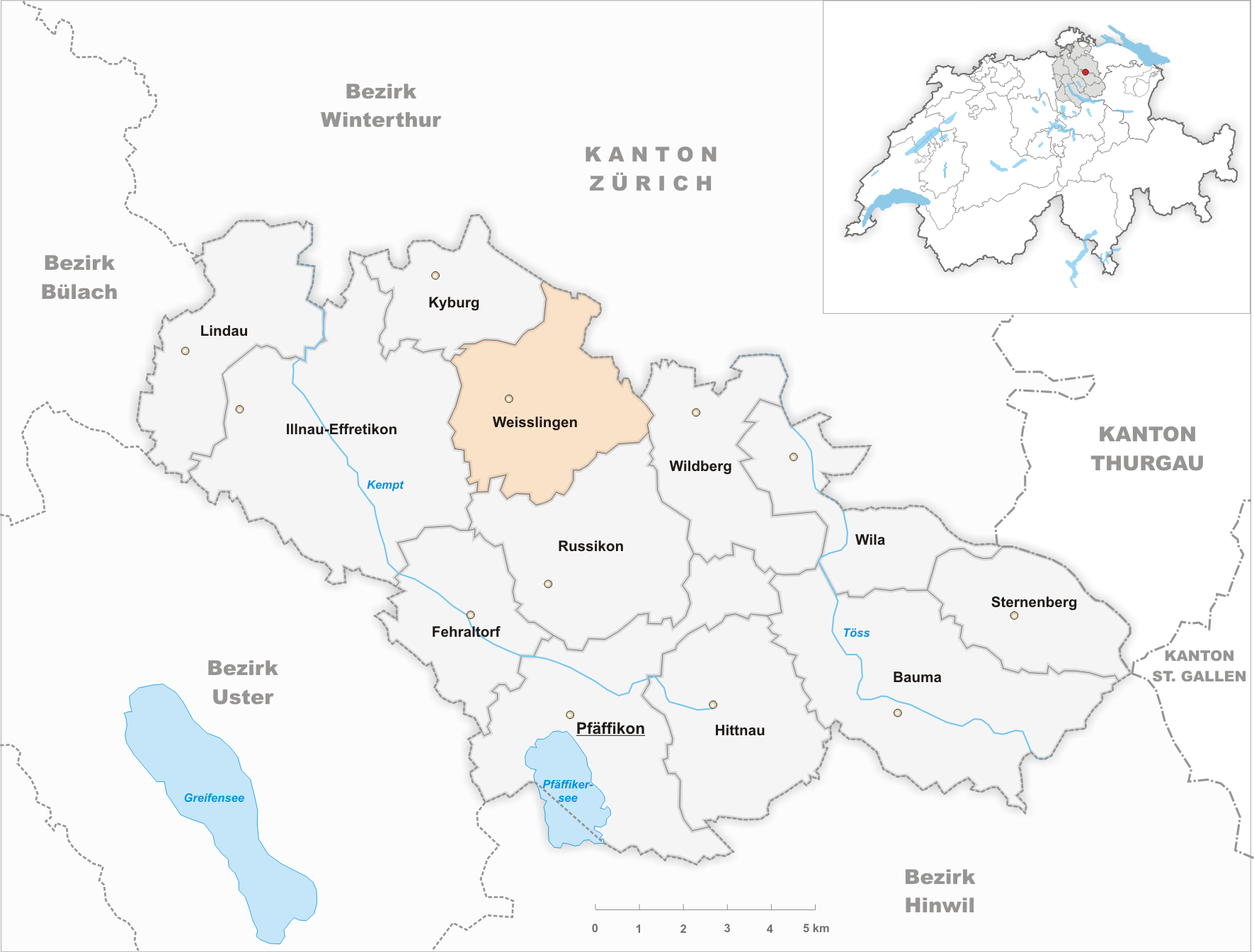 Municipality Weisslingen